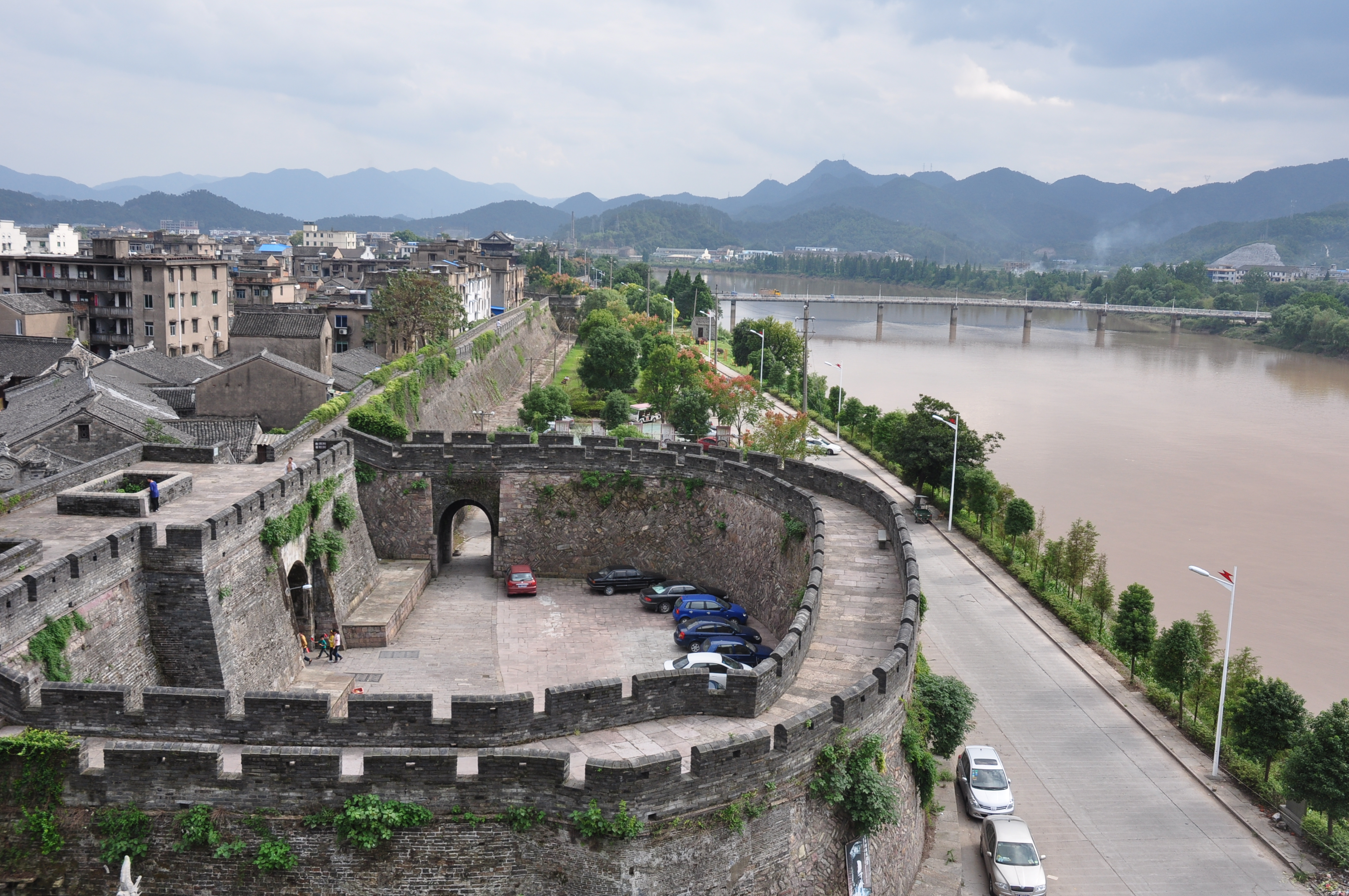 The ancient city wall and Lingjiang River, Linhai City, Zhejiang, China.